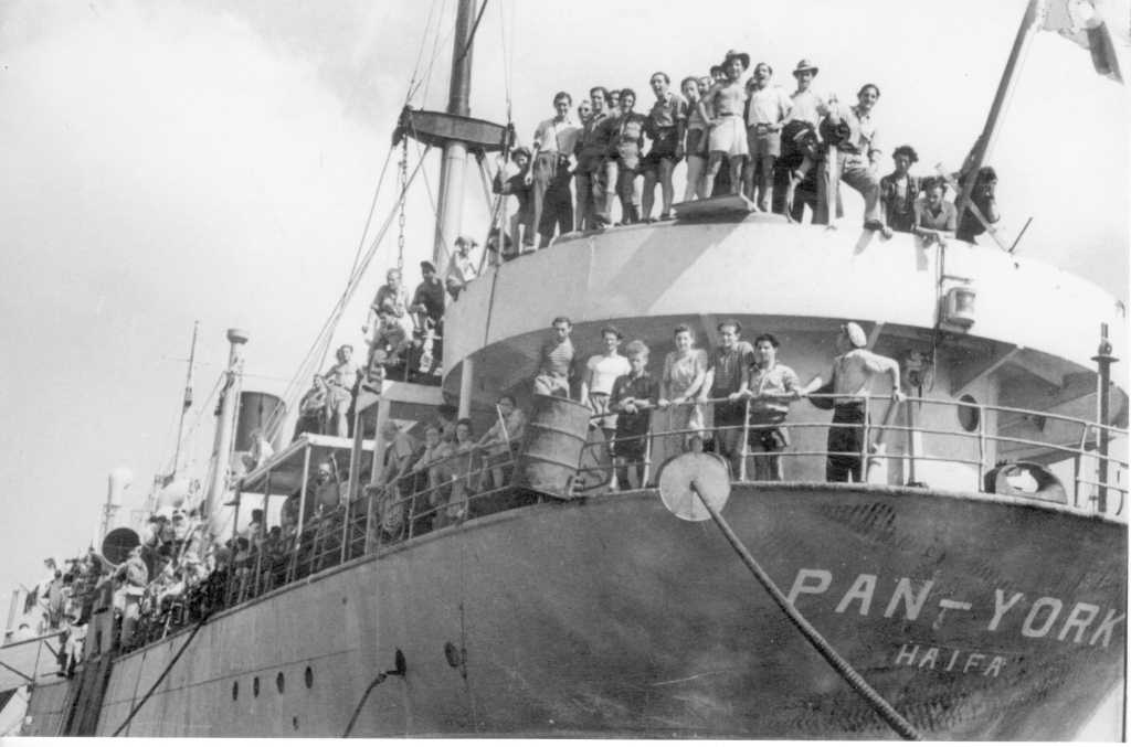 The Palmach, Immigration to Israel